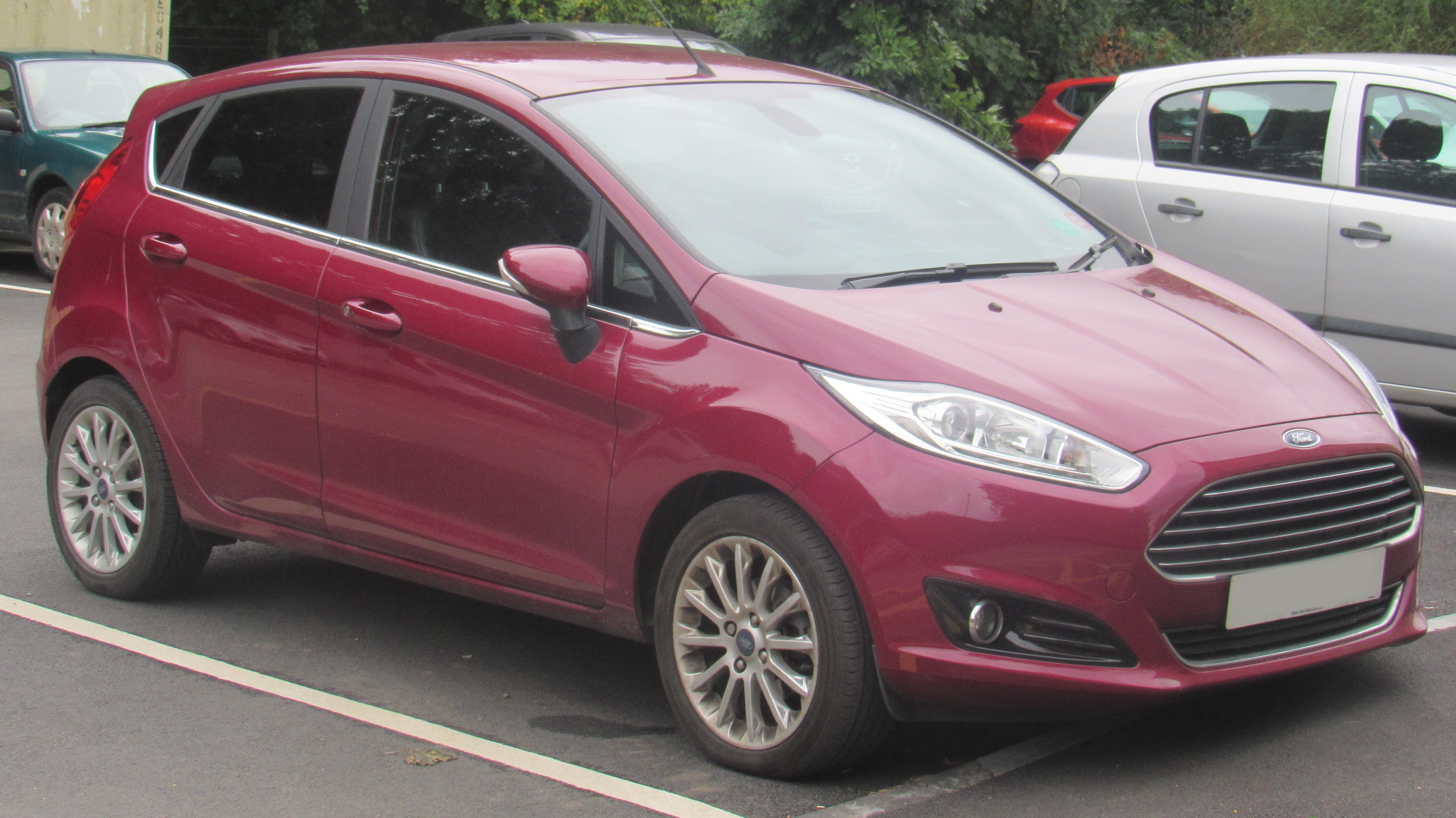 2014 Ford Fiesta Titanium X EcoBoost 1.0 Front Taken in Leamington Spa